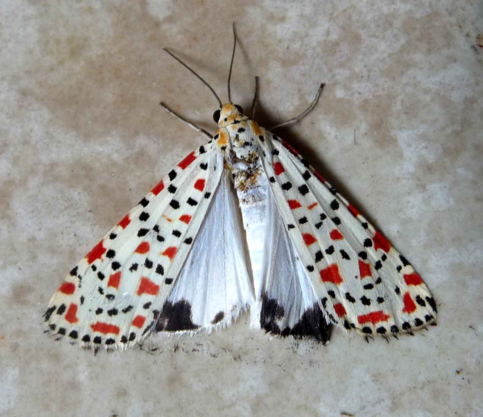 Crimson Speckled. Utethesia pulchella